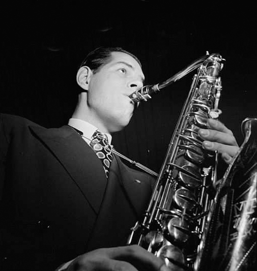 Tex Beneke